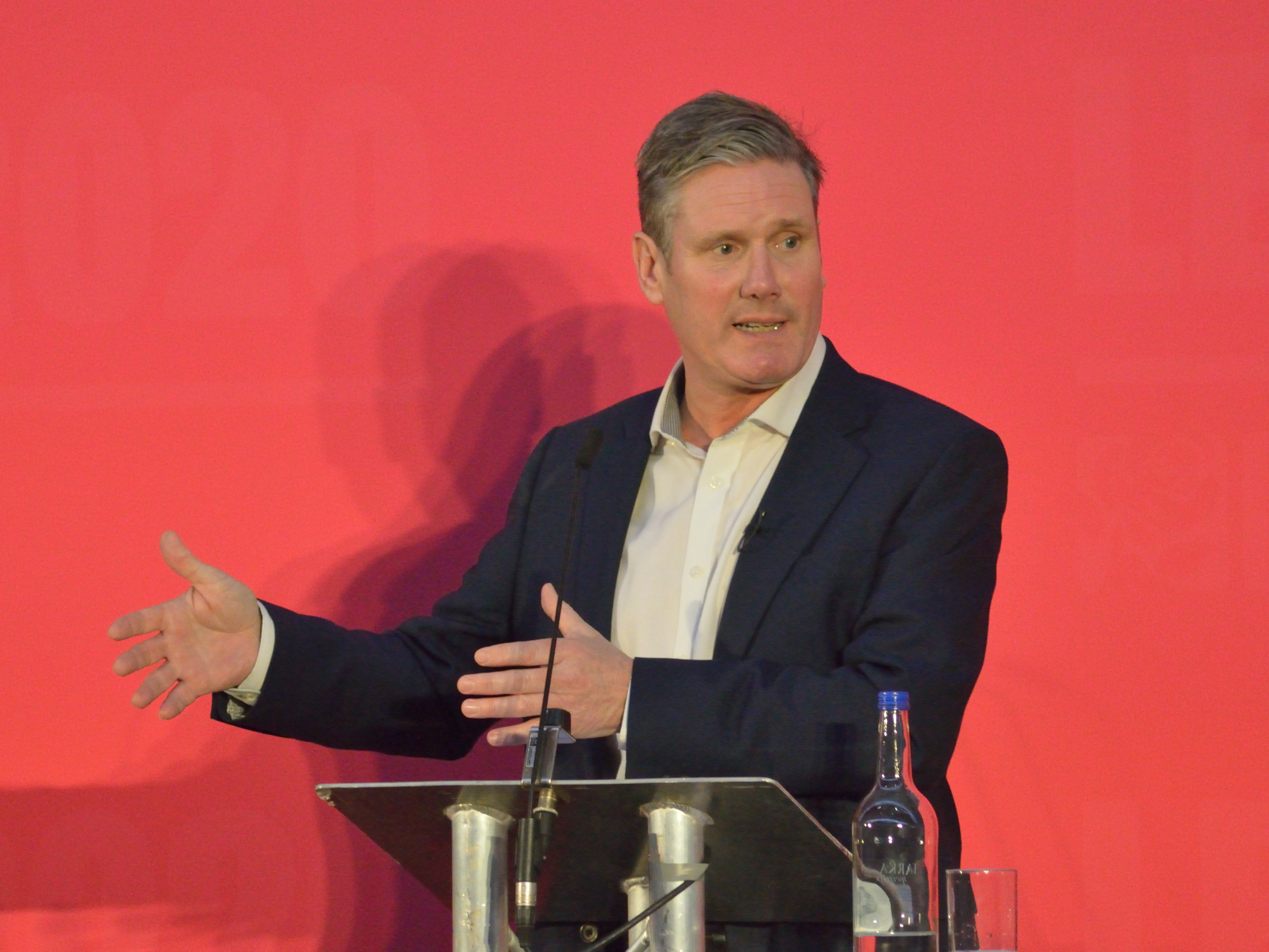 Keir Starmer speaking at the 2020 Labour Party leadership election hustings in Bristol on the morning of Saturday 1 February 2020, in the Ashton Gate Stadium Lansdown Stand.